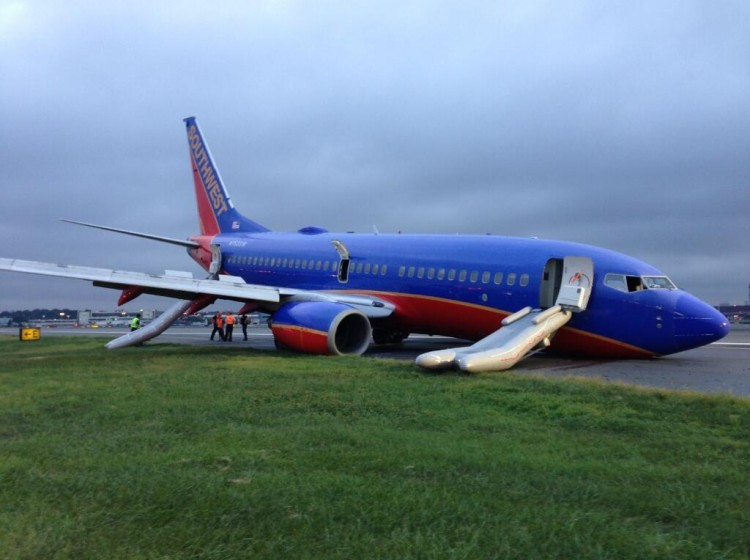 Southwest Airlines passenger jet Boeing B737-700, registration number N753SW, after landing on its nose gear, which caused its collapse and being driven into the aircraft's electronics bay, on the sidelines of runway 4 of La Guardia Airport in New York City, 22 July 2013. Photo by National Transportation Safety Board of United States of America